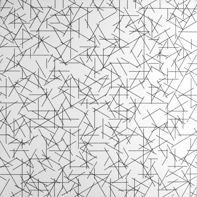 Alberto Zilocchi, Linee, 1980, pennino Graphos Rotring e inchiostro su tela ad acrilico bianco applicata su tavola, 80x80 cm